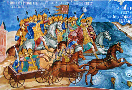 "Passage of the Red Sea", a 1641 fresco from the St. Nicholas "Nadeina" church in Yaroslavl